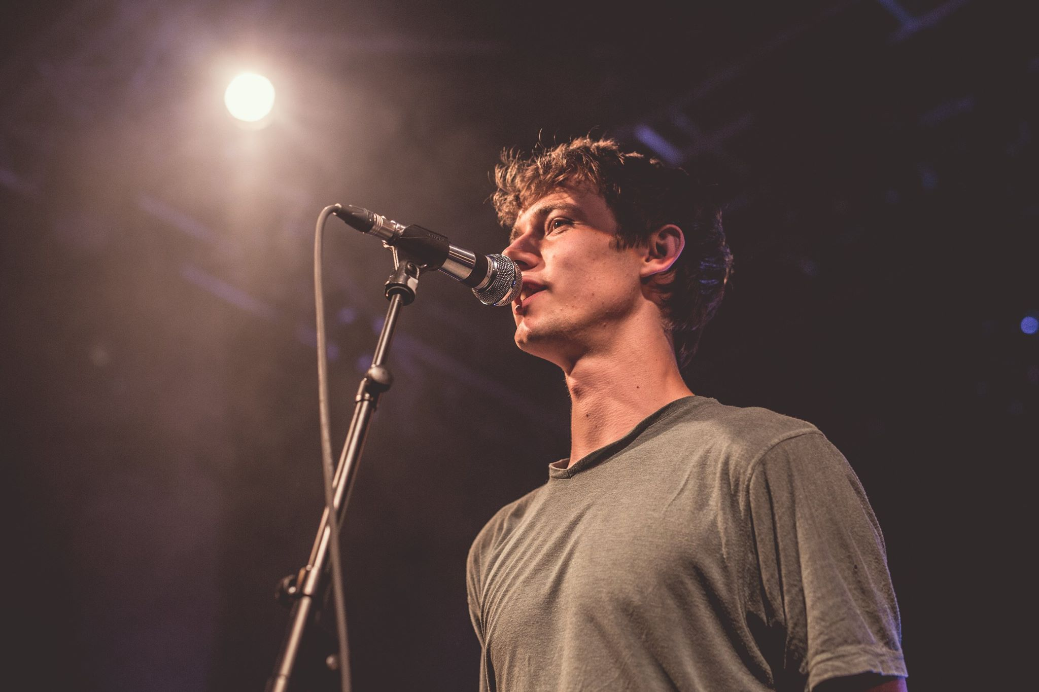 AnnenMayKantereit